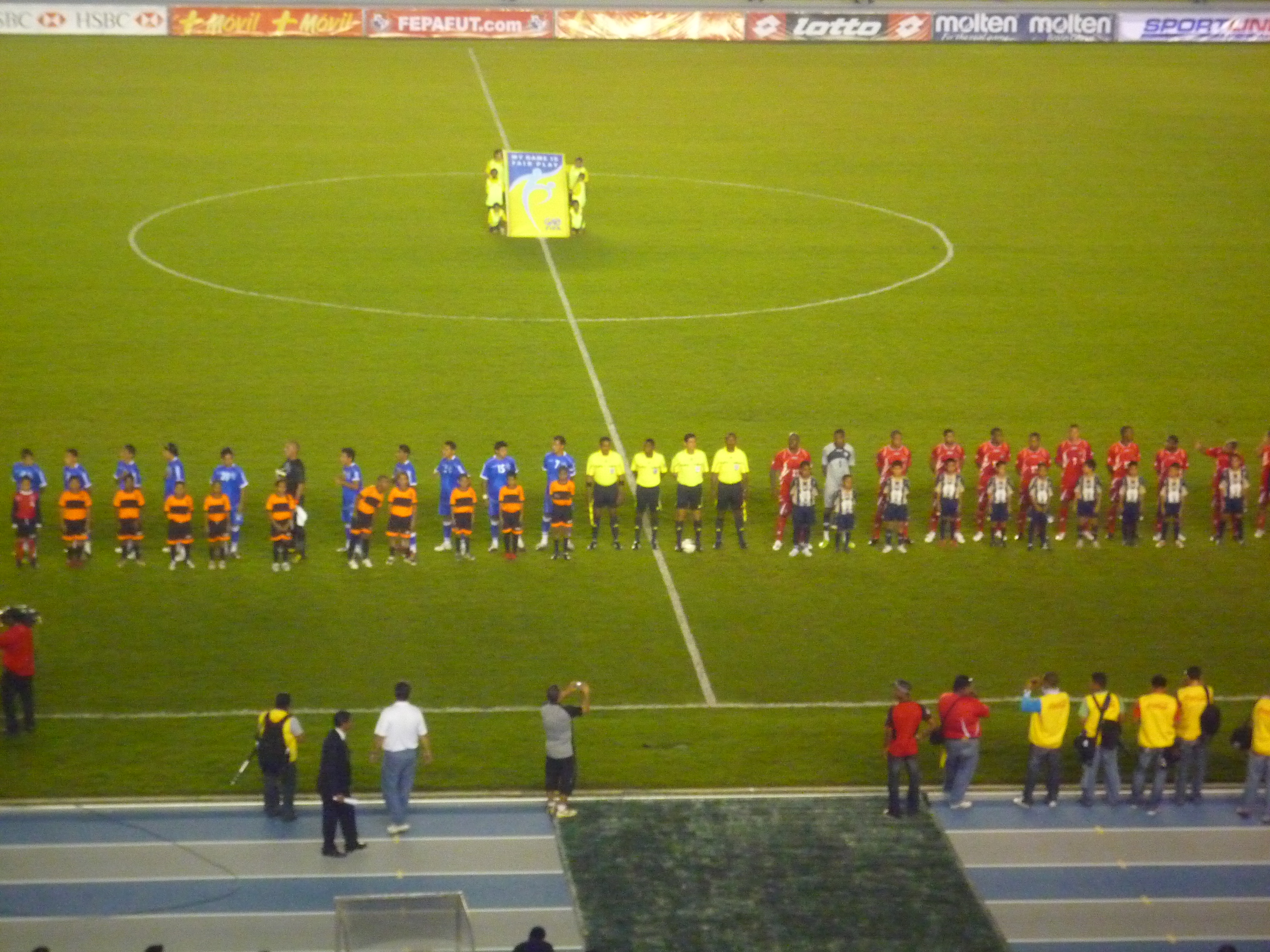 Friendly Panama vs El Salvador.